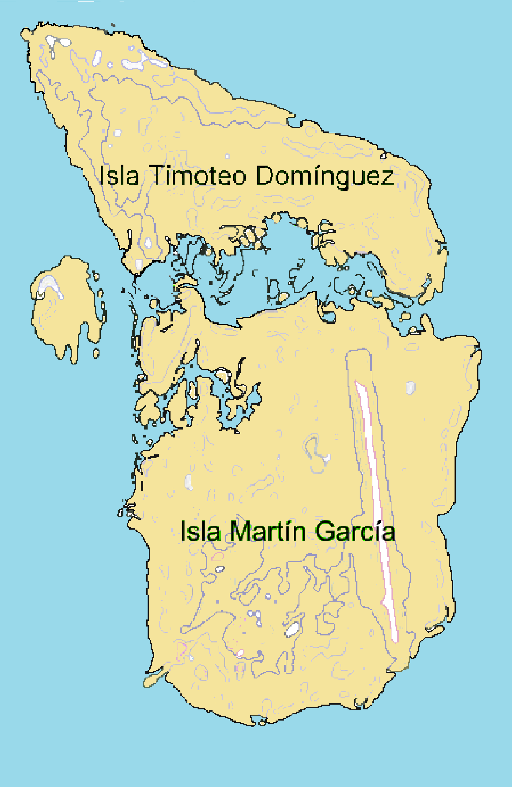 Map of Martín García and Timoteo Domínguez islands, in the Río de la Plata river.